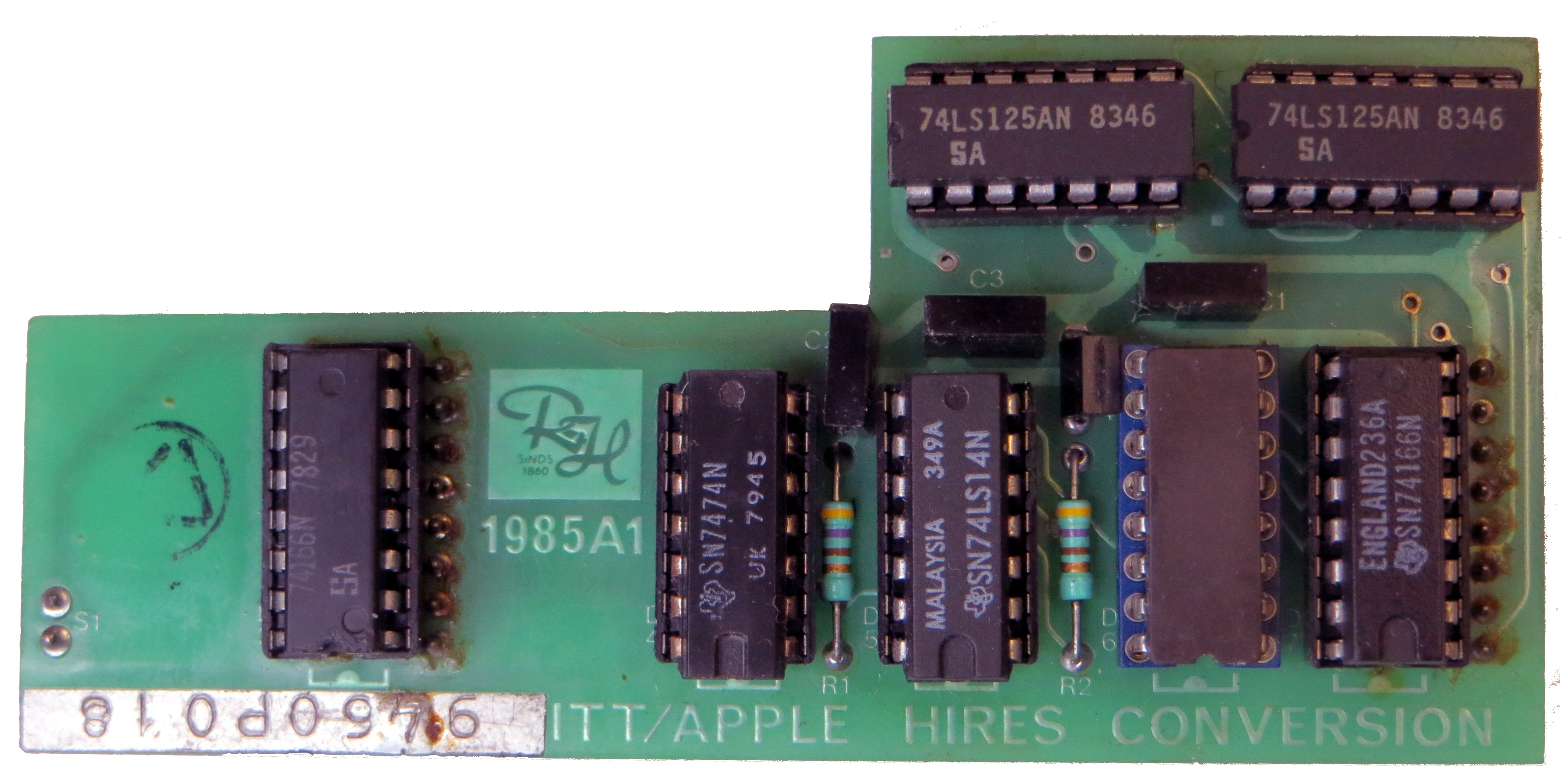 Conversion board for the ITT 2020 to improve bitmap graphics compatibility with the original Apple II.